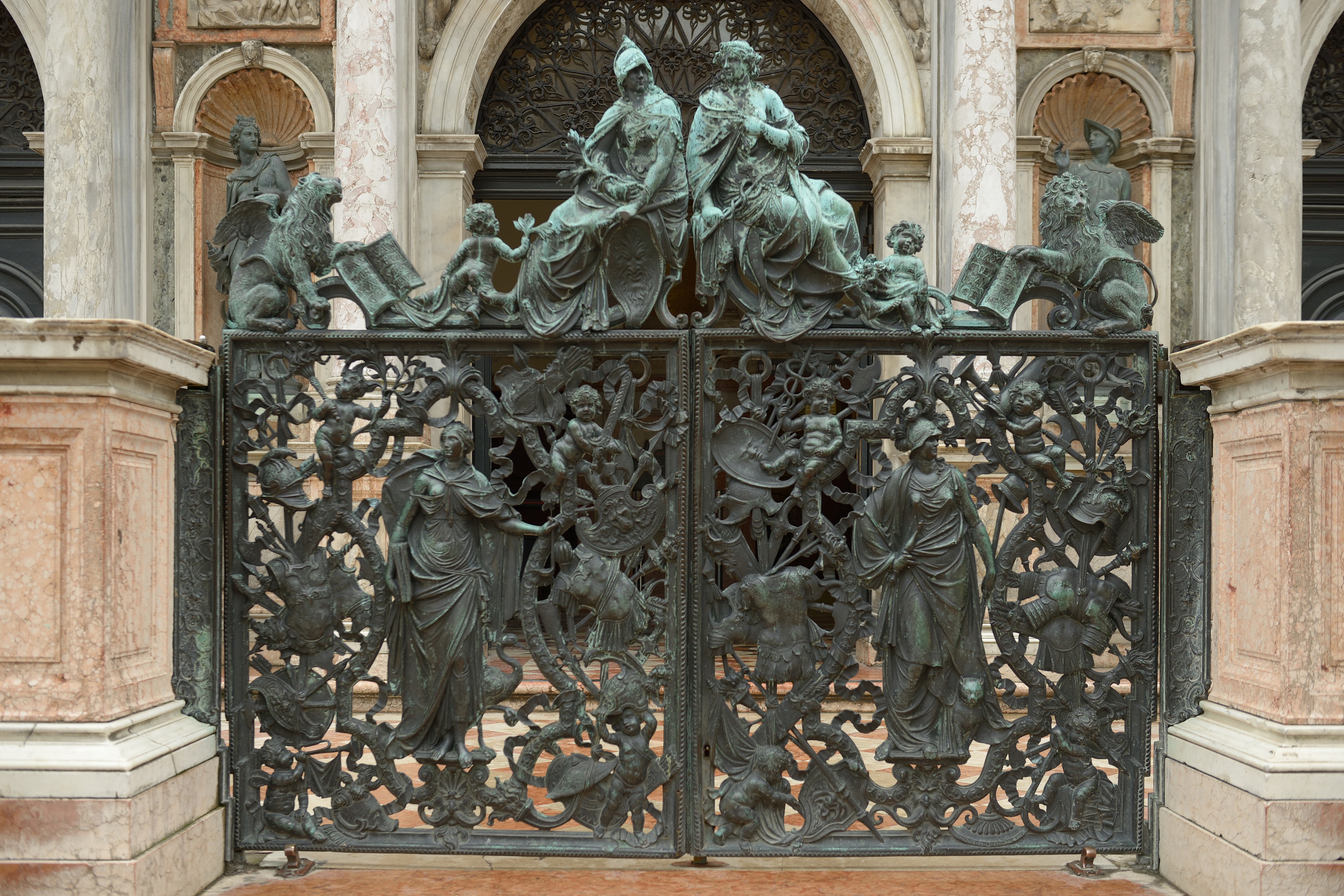 Gate by Antonio Gai AD 1737 at the Loggetta by Jacopo Sansovino, under the Campanile di San Marco in Venice